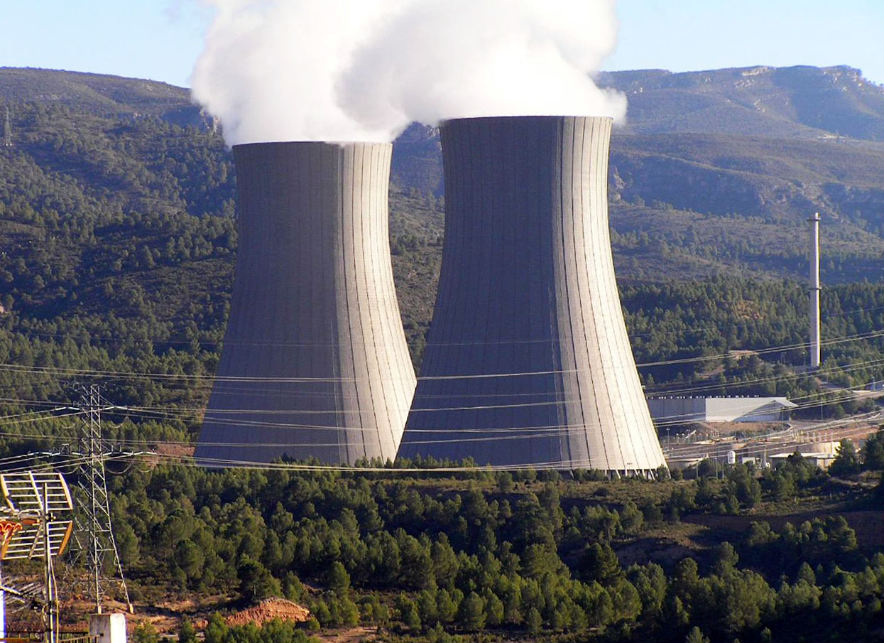 Photo of the Cofrentes (Spain) nuclear power plant cooling towers taken on 2005-05-22 by Roberto Uderio.